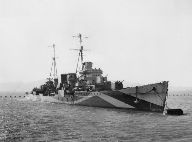 British light cruiser HMS DELHI at a buoy.